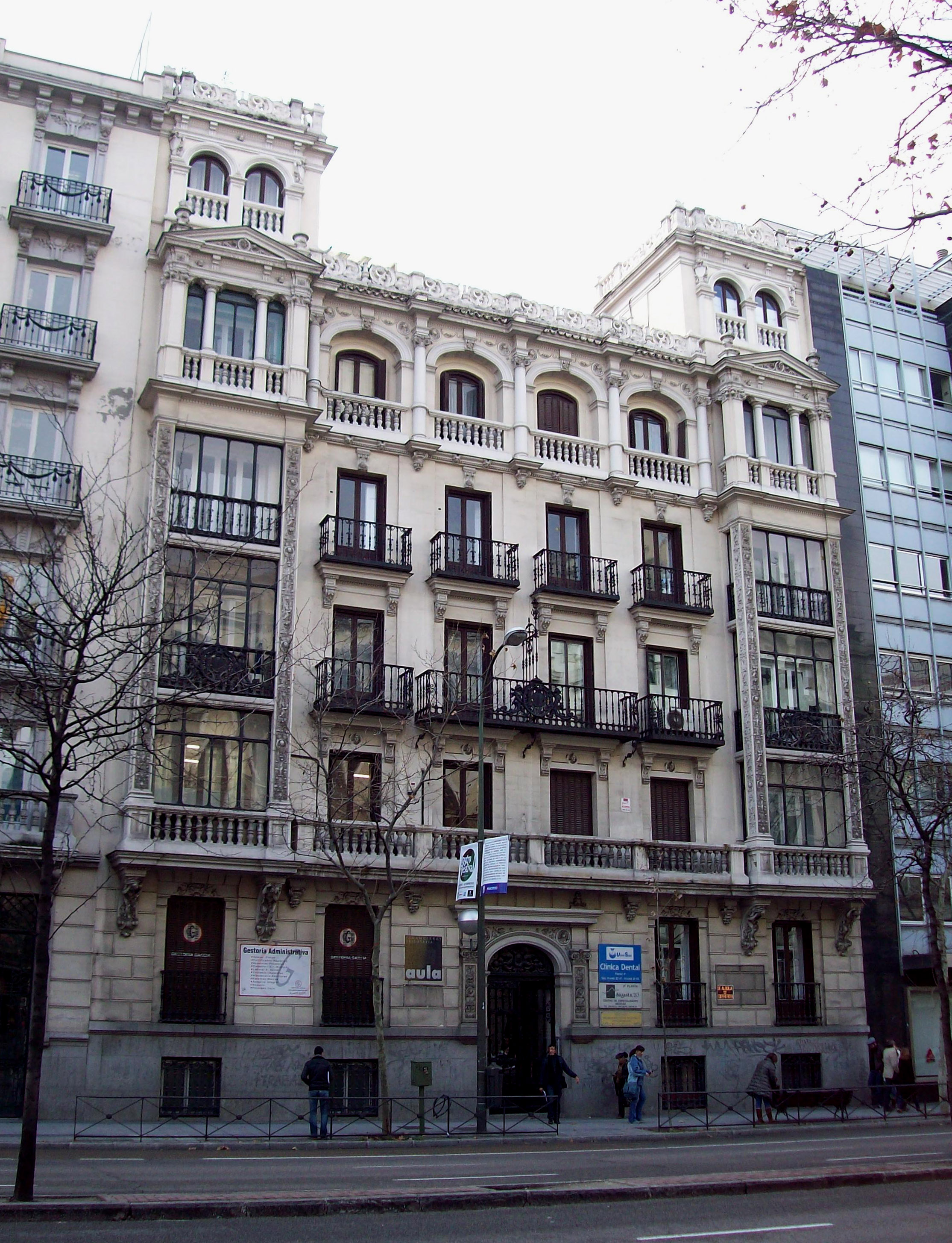 Building at 20th Calle de Sagasta (street) in Centro district in Madrid (Spain). It was projected in 1914 by architect Cesáreo Iradier Uriarte and built from 1915 to 1916.